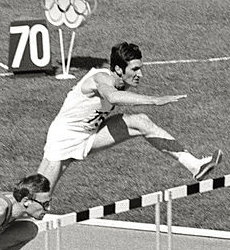 Daniel Riedo, first semi-final of men's 110 metre hurdles in Mexico City Olympics